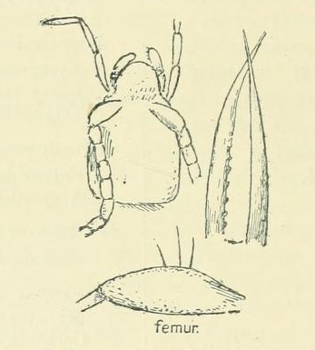 Myrrholabia electrina (syn Labidura? electrina) type illustration. Swinhoe Collection, Burmese amber.